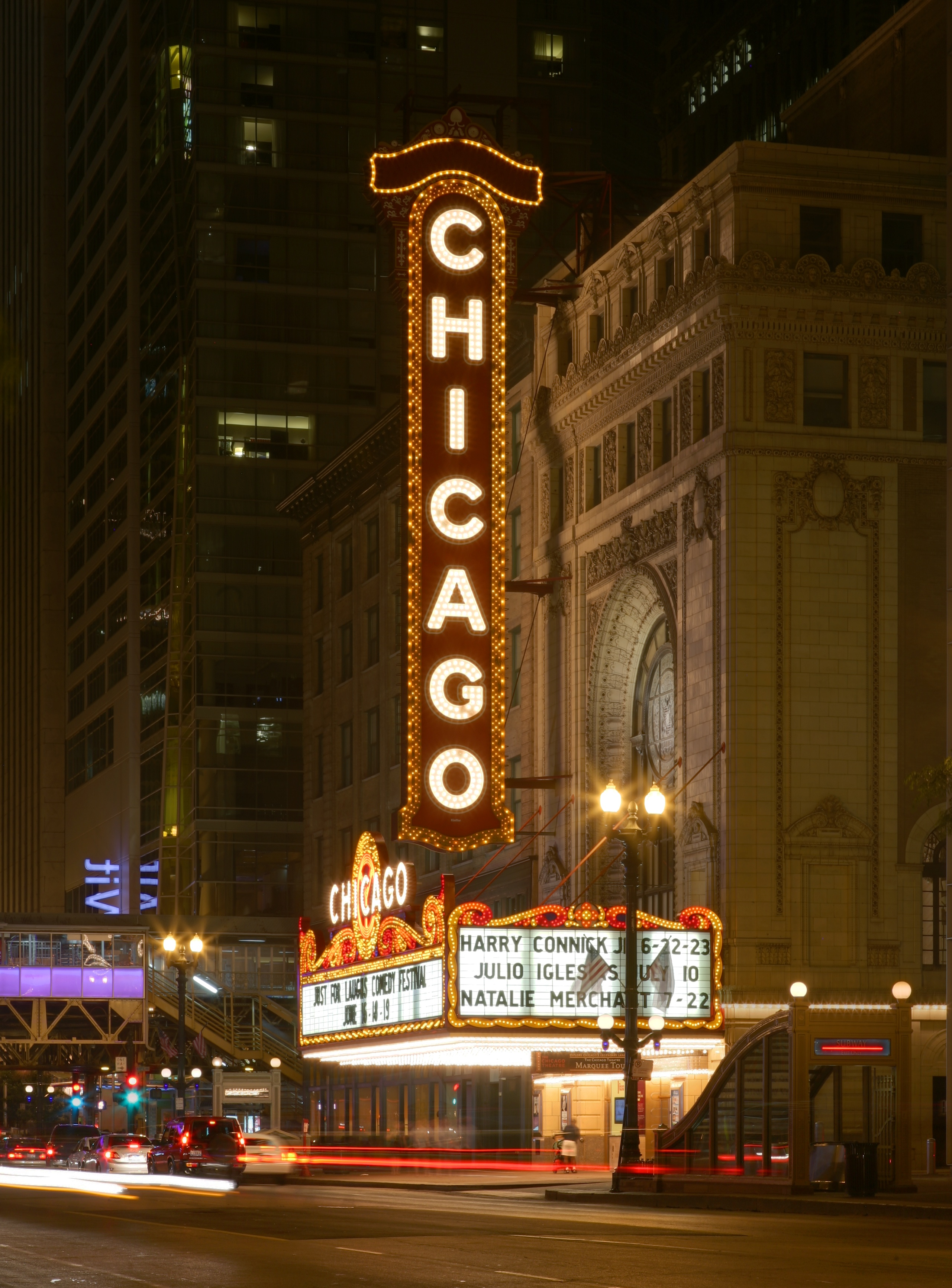 Chicago Theatre